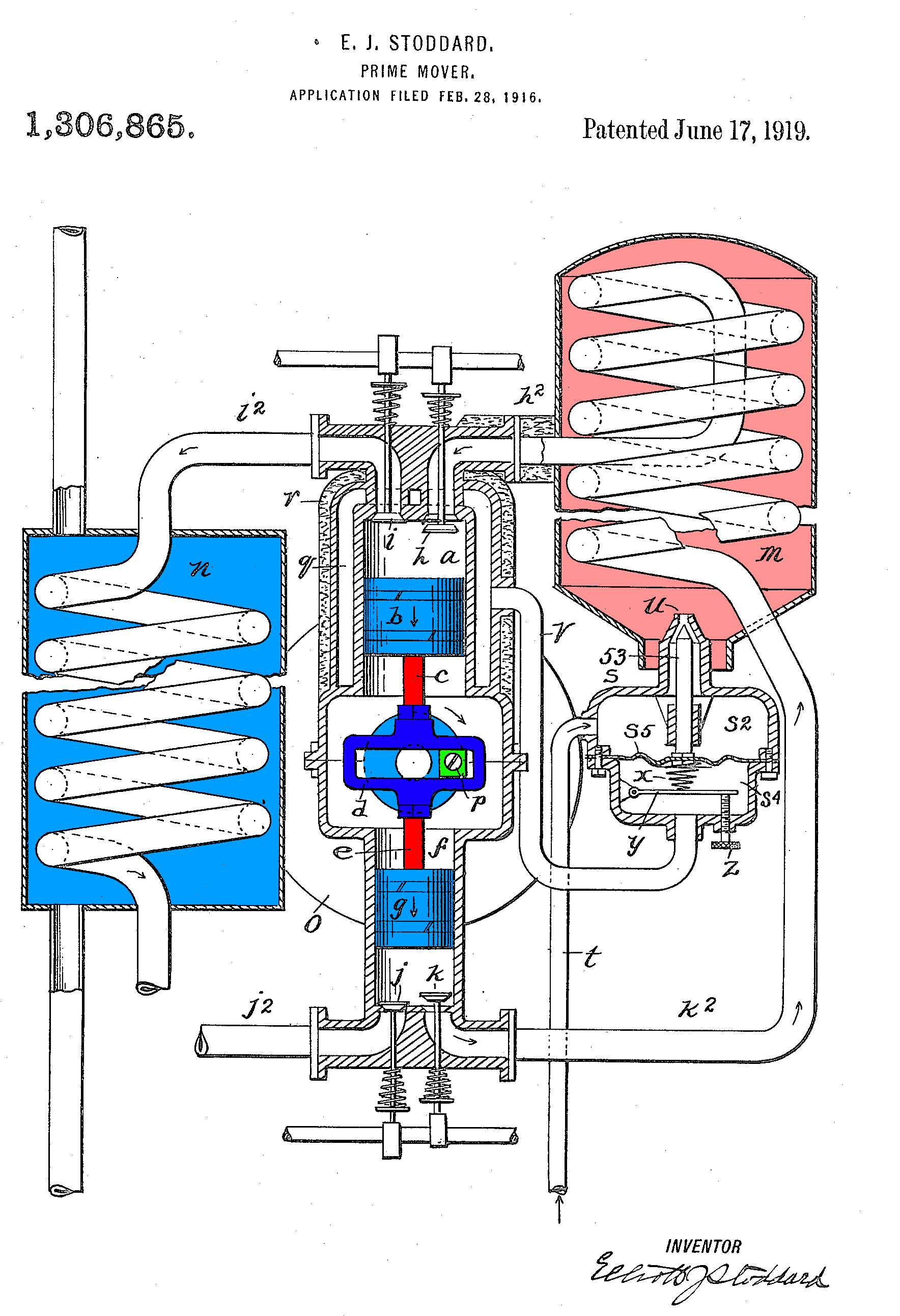 Apparatus for obtaining power from compressed air